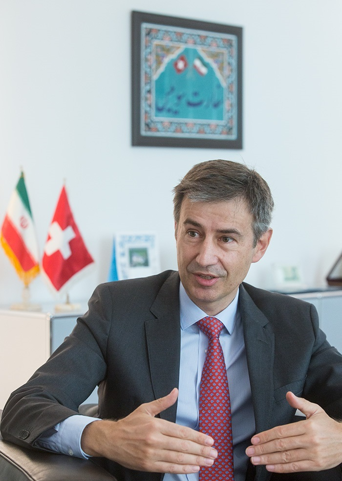 Ambassador Markus Leitner, Interview with FNA - 30 April 2018 main album